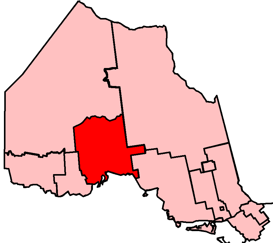 Thunder Bay—Superior North 2018 boundaries